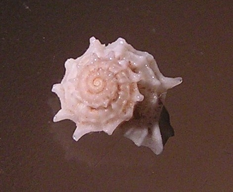 Liotina crenata (Kiener, 1839) , a sea snail from the family Liotiidae; Philippines